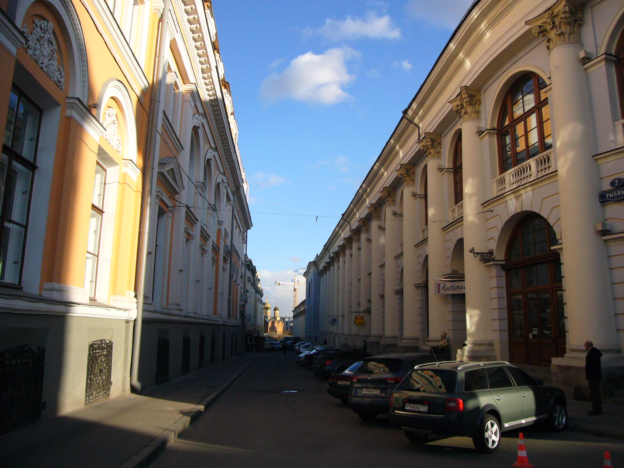 View of Rybnyi Pereulok (sidestreet), Moscow, Russia